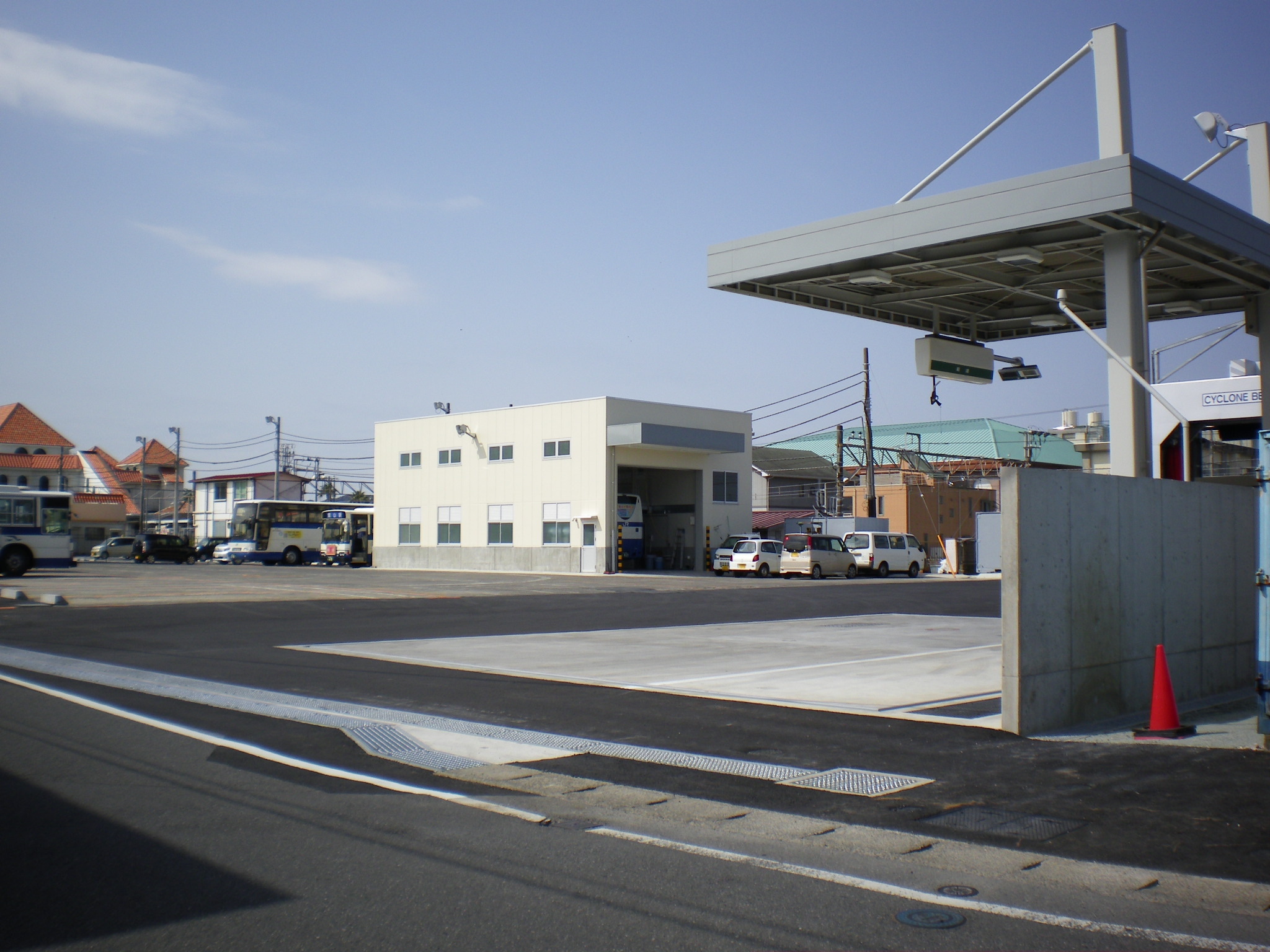 JR Bus Kanto Tateyama Branch